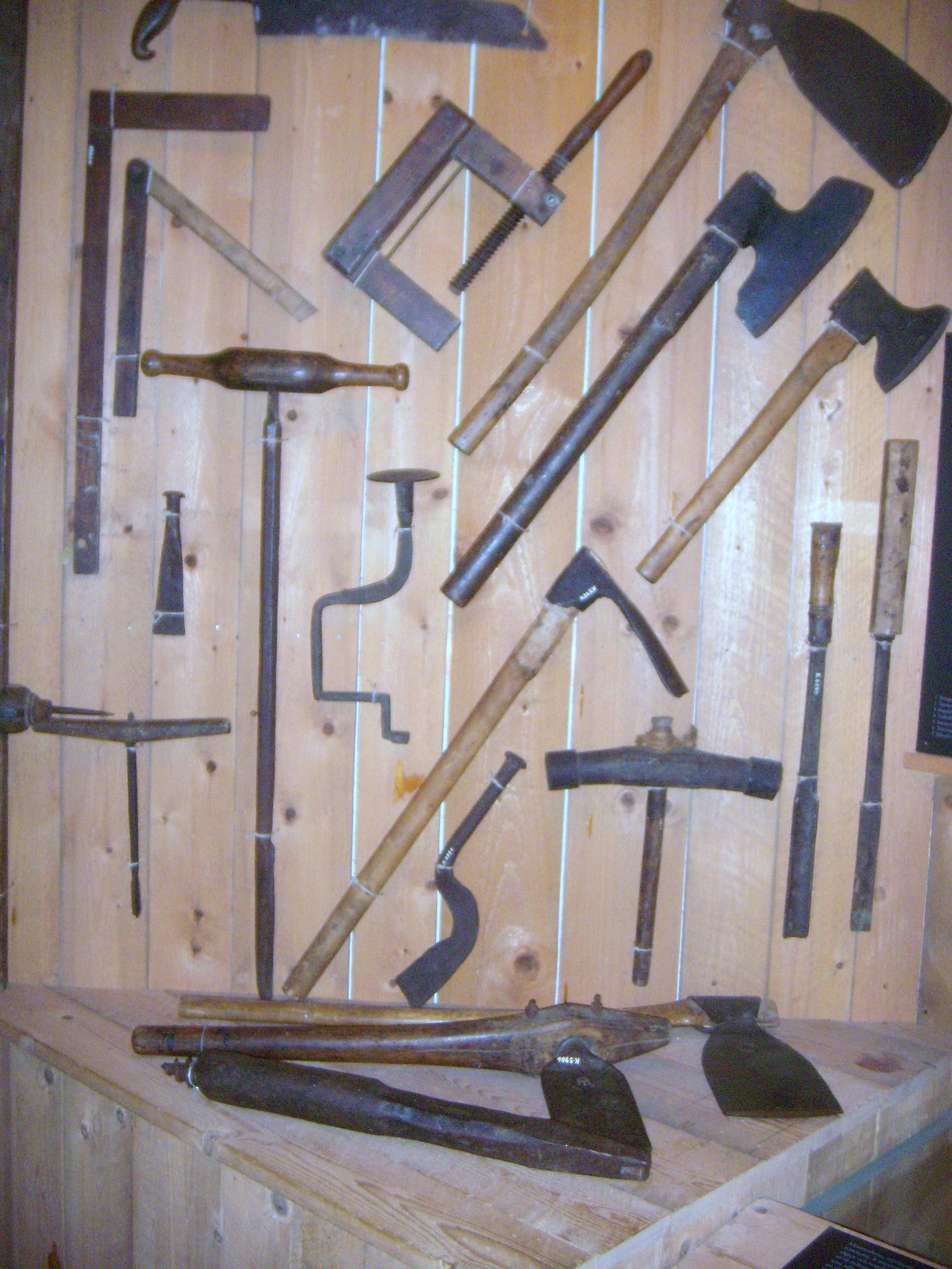 Shipbuilding tools